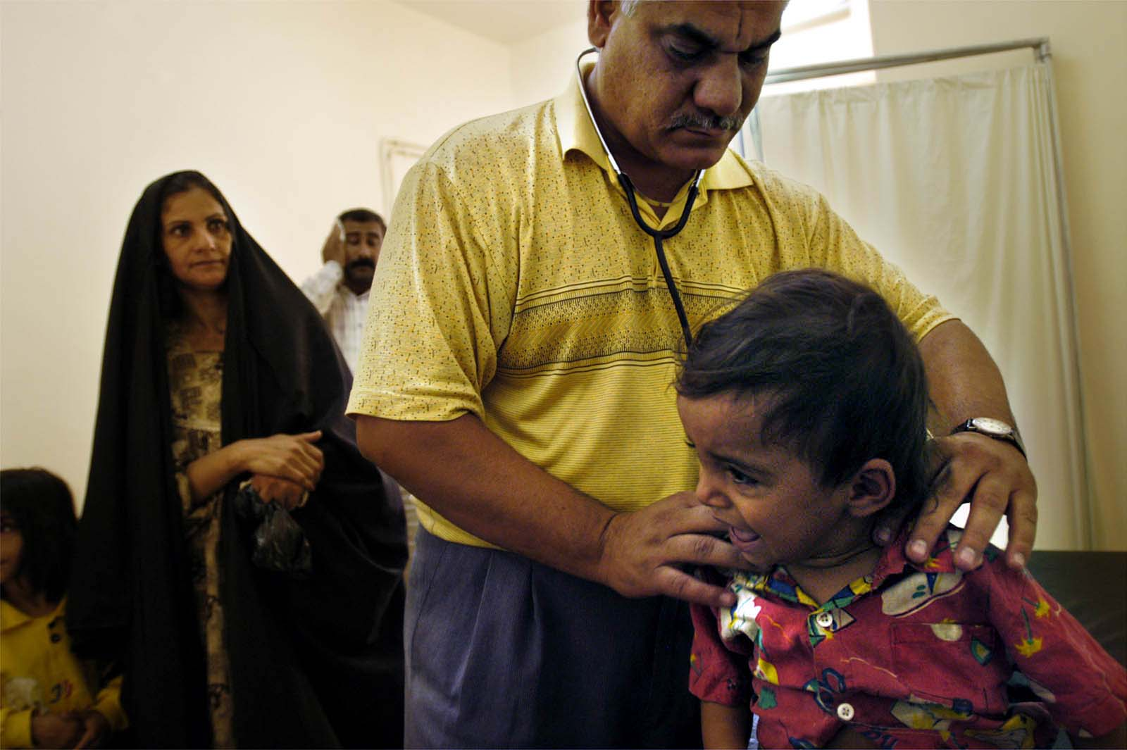 Kirkuk, Northern Iraq (9/13/03) IMC Project Al-Arafa Clinic. Dr. Mohammed Salih has worked at the clinic for years. The doctor uses the stethoscope to examine three year old Adra Nazi.